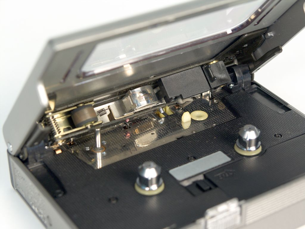 Editing undertaken: Unsharp Mask